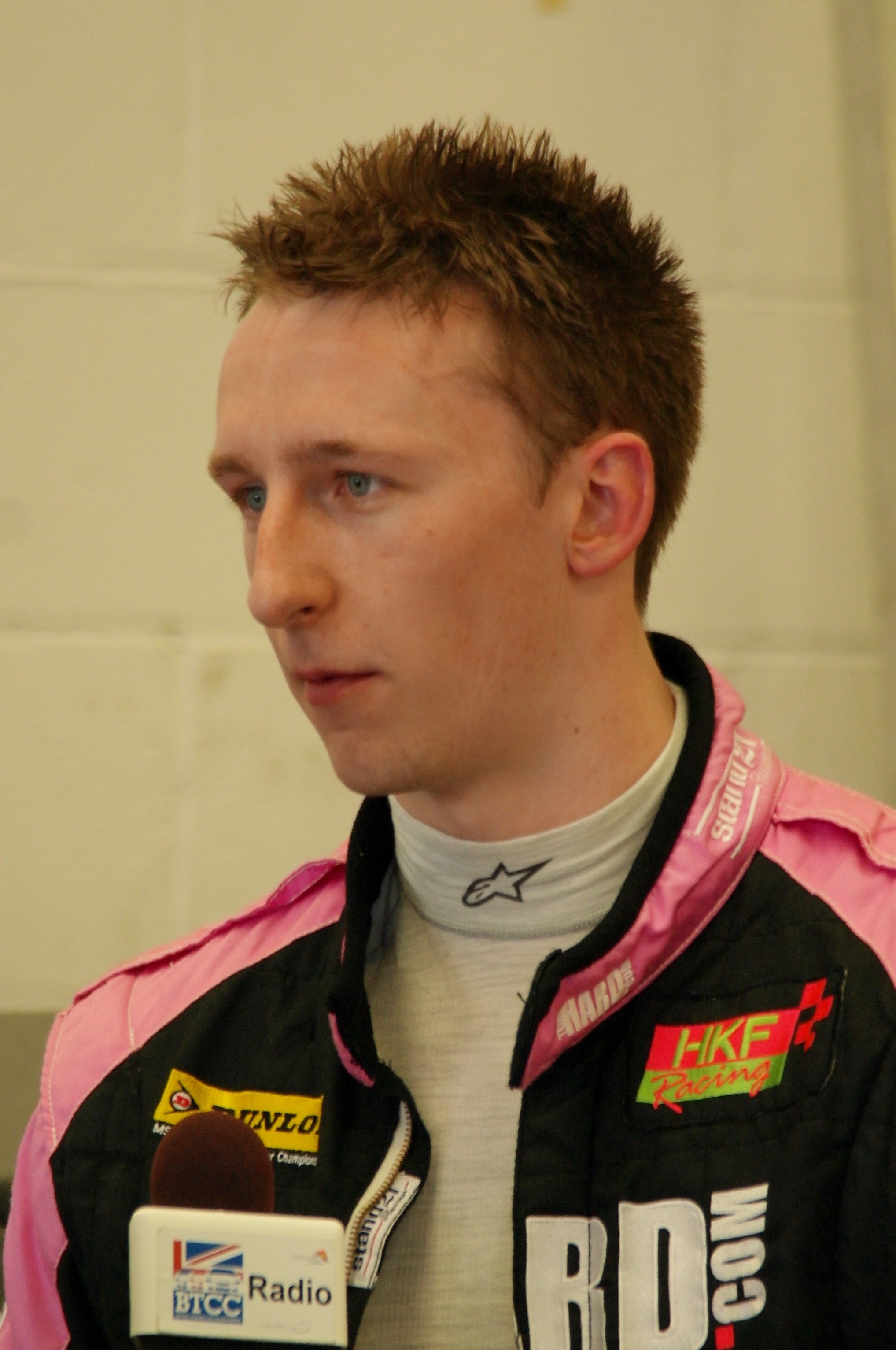 Howard Fuller at the Silverstone round of the 2013 British Touring Car Championship season, Saturday 28th September.